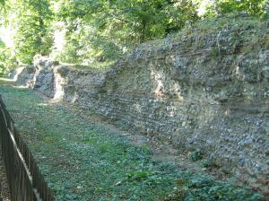 Remains of the eastern city wall of Verulamium.